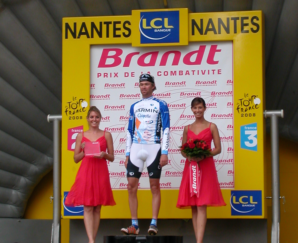 William Frischkorn with the most combative award at the arrival of the Tour de France 2008's 3rd stage in Nantes